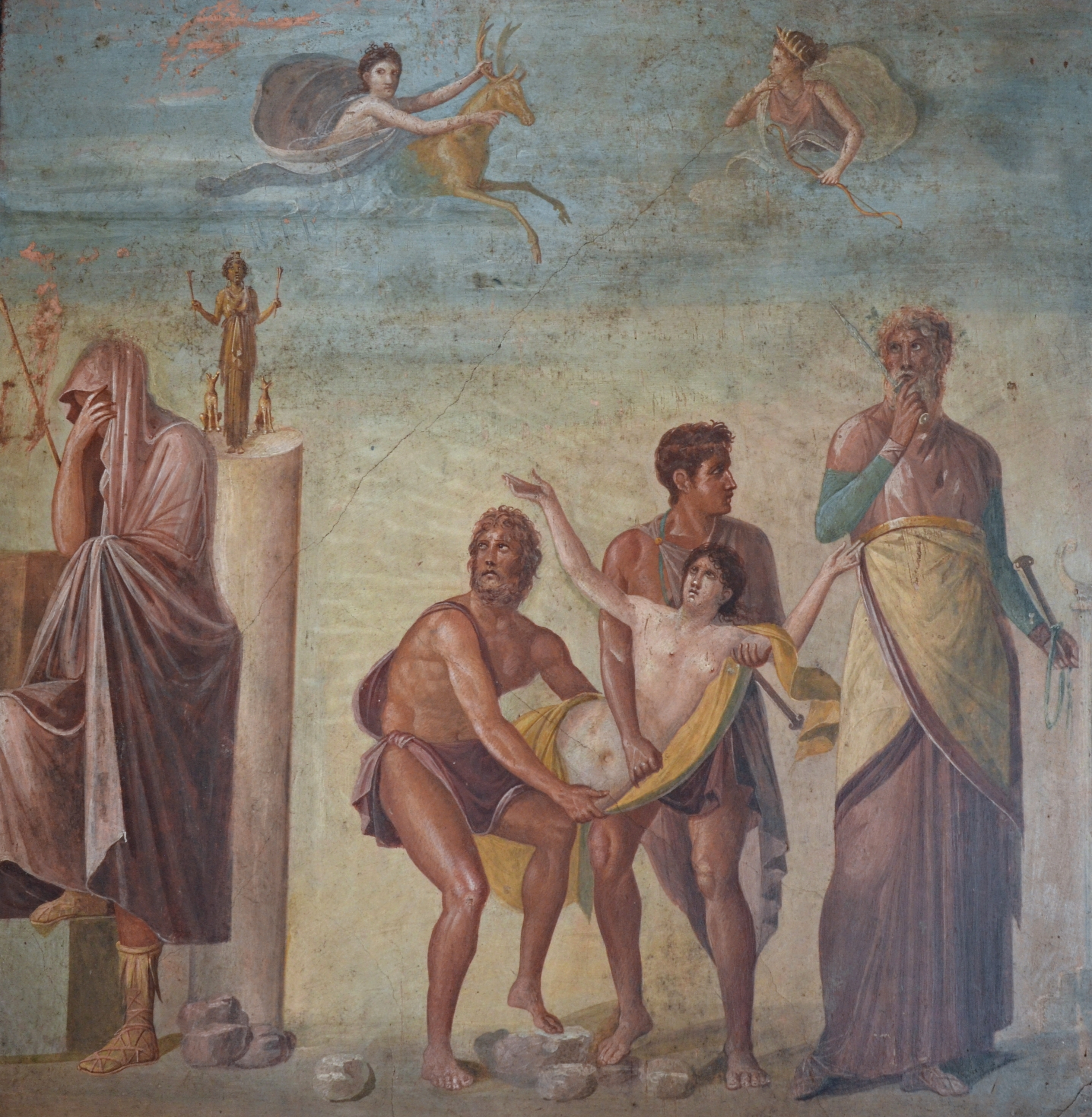 Fourth Style fresco depicting the Sacrifice of Iphigenia, from the House of the Tragic Poet in Pompeii, Naples National Archaeological Museum